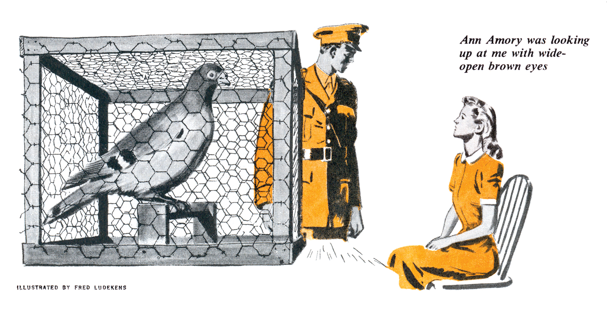 Illustration for "Not Quite Dead Enough", a Nero Wolfe novella by Rex Stout that first appeared in The American Magazine